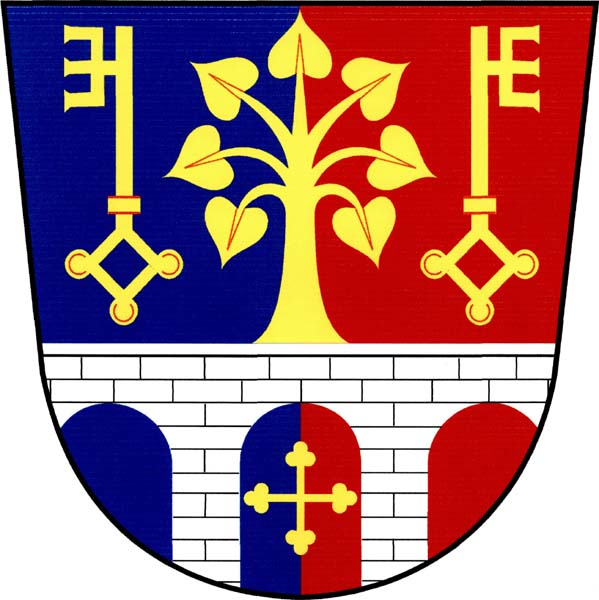 Municipal coat of arms of Sedlice village, Pelhřimov District, Czech Republic.